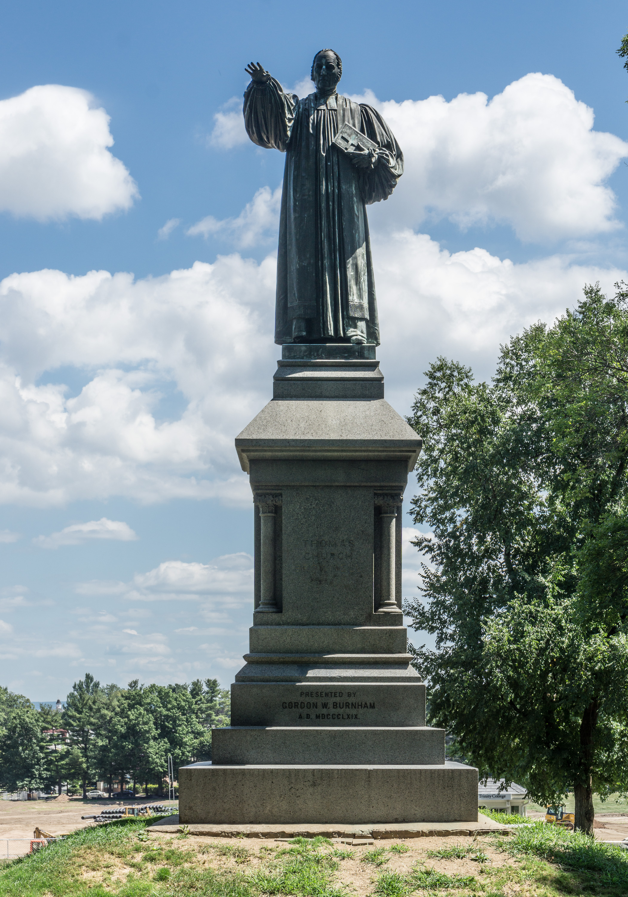 Statue of Thomas Church Brownell at Trinity College, Hartford, Connecticut. Designed by Chauncey Ives. Foundry: Ferdinand von Miller of Munich. Taken 2016.